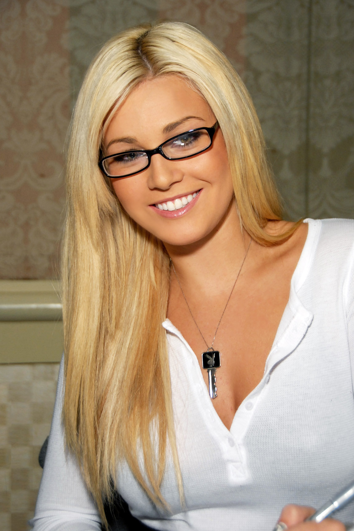 Ciara Price attending Glamourcon at the Hilton Hotel, Long Beach, CA on November 5, 2011 - Photo by Glenn Francis at